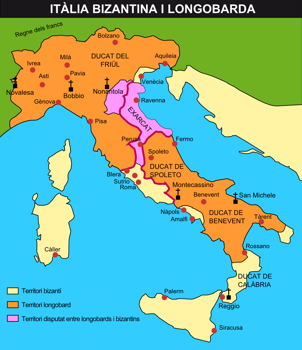 map of Byzantine-Lombard Italy